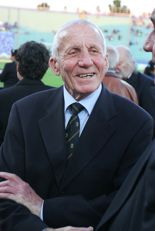 Vasil Metodiev (Bulgarian: Васил Методйев)(born 6 January 1935) is a Bulgarian football midfielder who played for Bulgaria in the 1966 FIFA World Cup. He also played for PFC Lokomotiv Sofia.